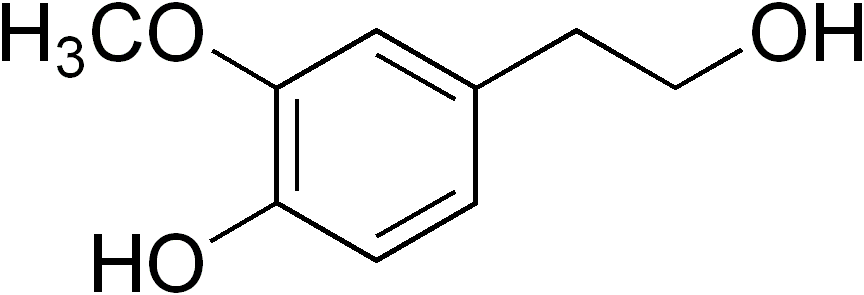 chemical structure of homovanillyl alcohol